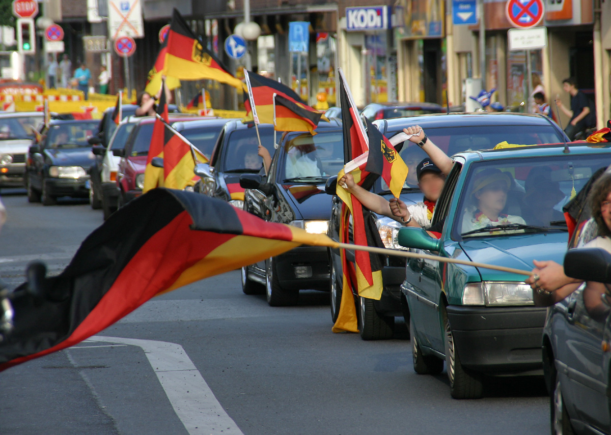 Car parade on Homberger Straße, Moers, Germany, after Germany reached FIFA World Cup round of eight